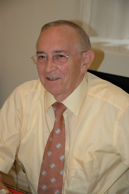 Francis Detraux, former senator of Belgium.